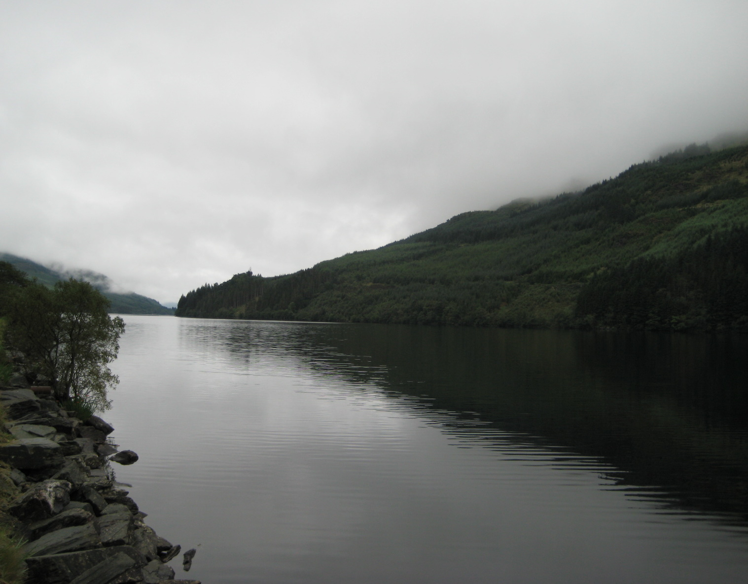 Loch Eck, Argyll and Bute, Scotland